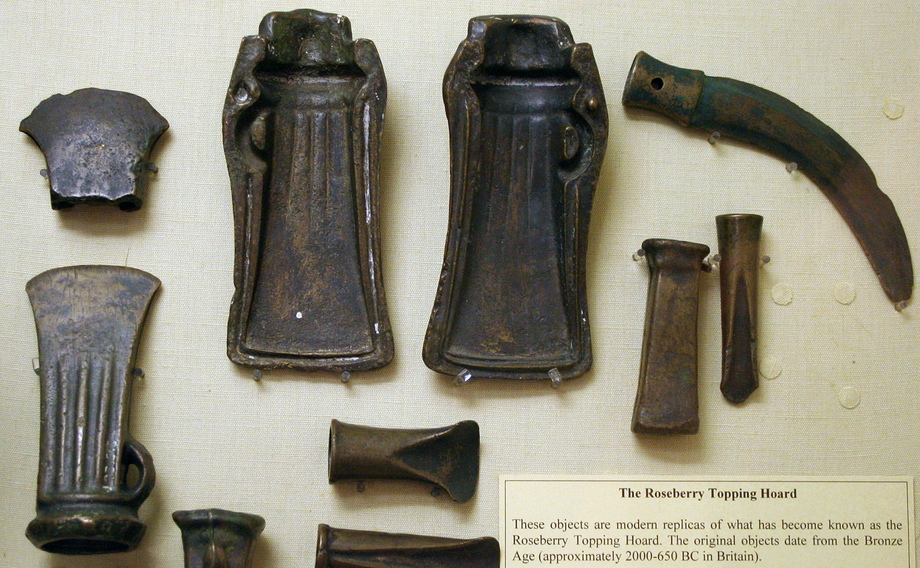 Replicas of the Roseberry Topping hoard, in the Dorman Museum, Middlesbrough